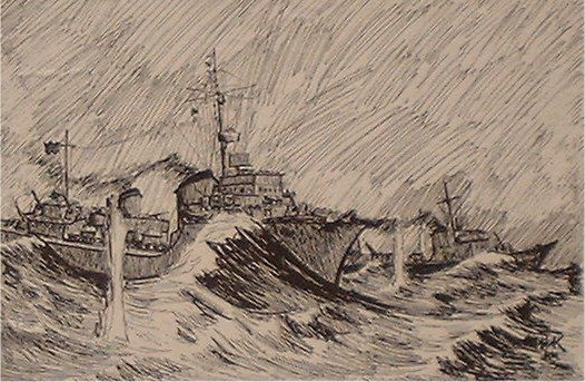 The Free Art licence authorises you to freely copy, spread, and transform creative works while respecting the author's rights. This applies only to the low-resolution image. Copyright remains on the original image. - - - - This is a low resolution copy of a drawing. It was created by a member of the crew of Z72 while interned in the Curragh (which dates it to 1944) It is among a group of sketches presented to the National Maritime Museum of Ireland in May 1994, where it remains on display You are free to distribute this low resolution image. If doing so, please make reference to the Museum. 29 December 1943. It shows a view from the Z27 of the torpedo boats T25 and T26. The German cyphers were broken, so HMS Enterprise and HMS Glasgow knew their location and were able to shell them from over the horizon and out of range of any returned fire. T25 and T26 were sunk. Z27 was scuttled.